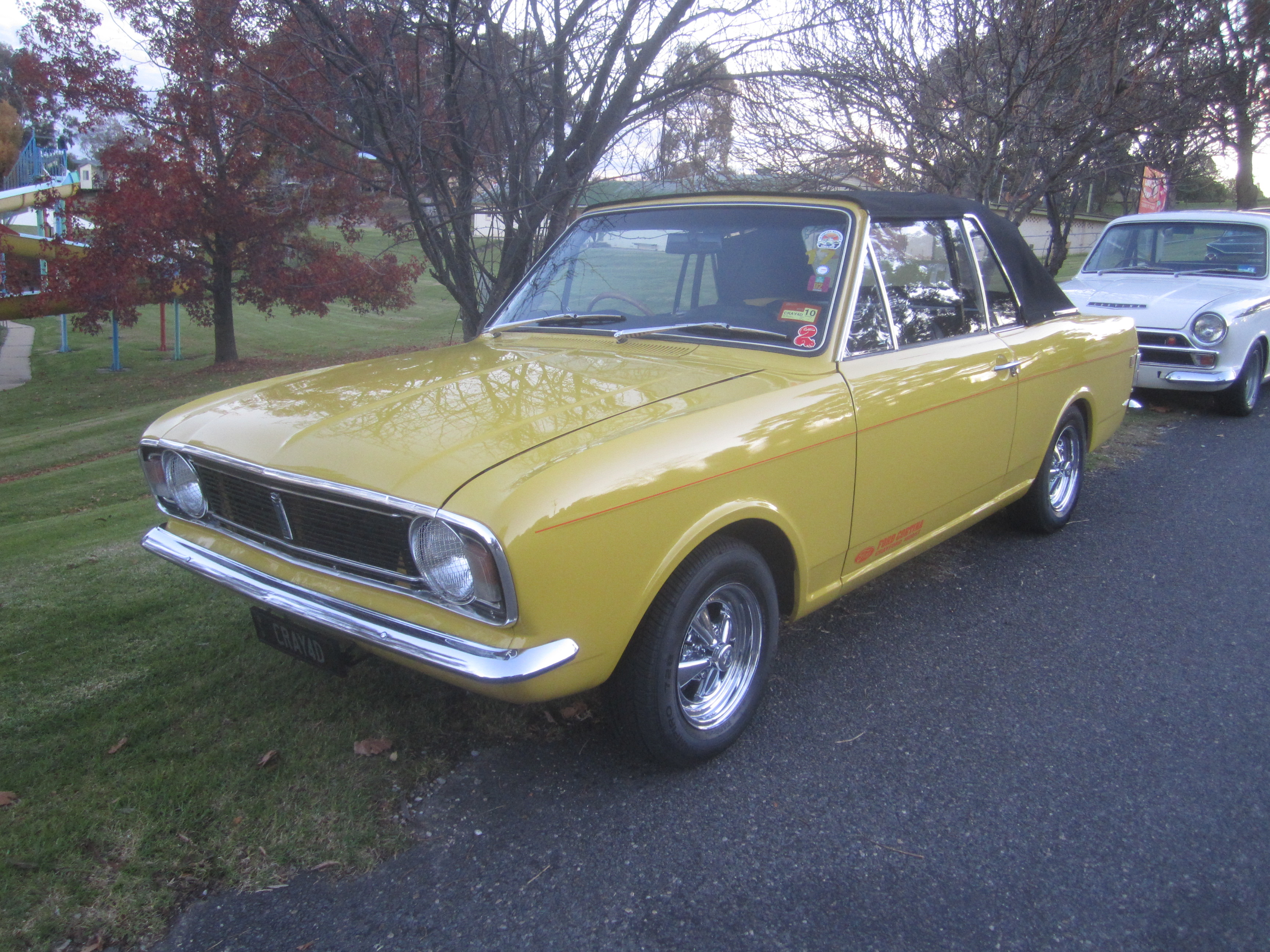 The Mk II Cortina, built from 1966-70 was a squarer, boxier shape than the Mk I. Engines were initially carried over from the Mk I but replaced in 1967 with the 1600 with the cross flow head. A mild facelift in 1969 saw separate F O R D letters on bonnet and boot, a black grille and chrome above and below the tail lights. In England and NZ the models were; Base, Deluxe, Super, GT and in 1967, 1600E (NZ GTE). Australian models were 220, 240, 440, 440L, GT and GTL. Ford didn't produce Cortina convertibles but Crayford Auto Developments in Kent, England did. They offered all models of the Cortina, from Mk I to Mk IV and the Ford Corsair as well.Around 400 Mk IIs were made, mainly based on GTs. Photographed at the 1st Cortina Nationals in Albury, Australia.